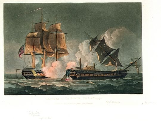 Capture of HMS Sybille capturing the Forte, on 28 February 1799